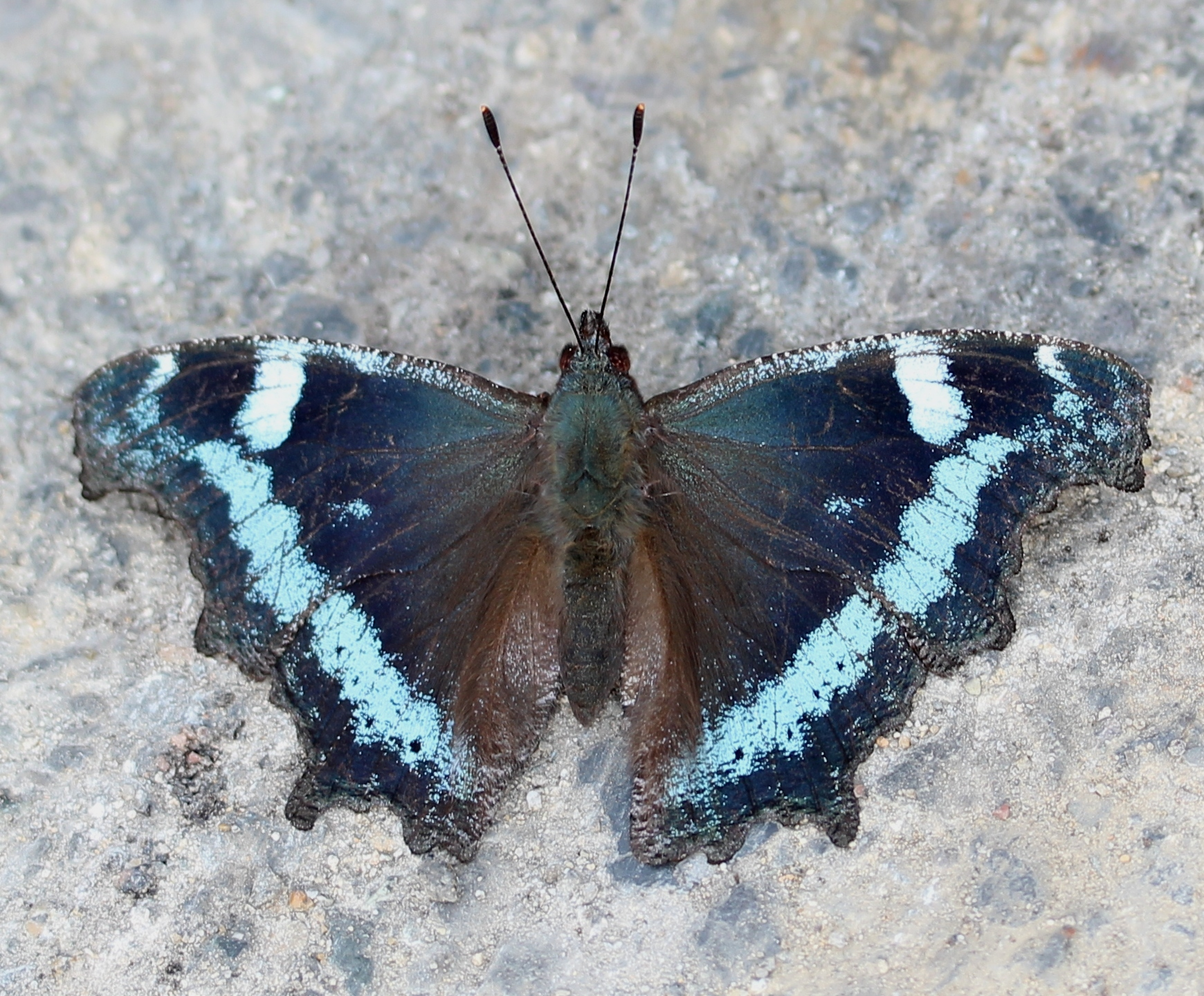 Kaniska canace no-japonicum (Blue Admiral), front in Japan